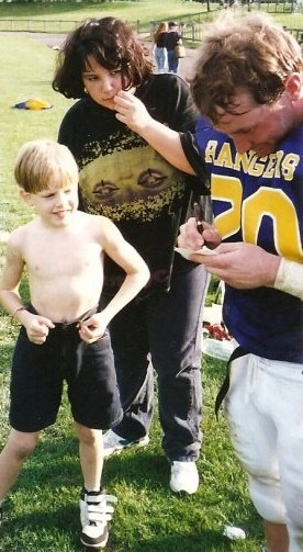 Todd Hendricks signing autographs